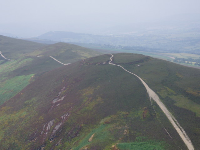 Moel y Gaer Moel y Gaer hillfort, seen from Moel y Gamelin. The hillfort occupies a prominent summit on Llantysilio Mountain. The inturned entrance lies to the east while the fort's remains are fronted by a ditch on the north.